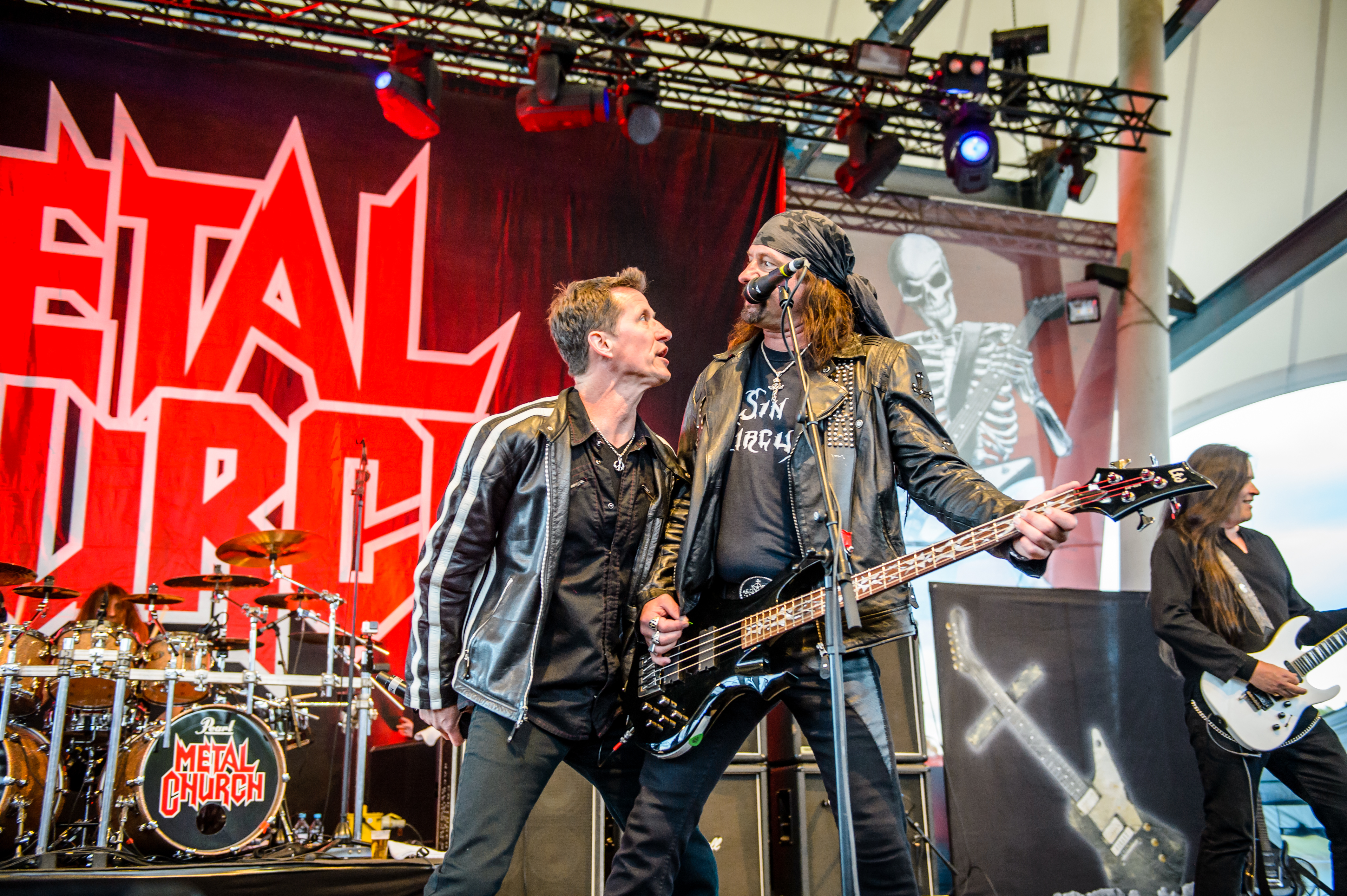 Metal Church; RockHard Festival 2016